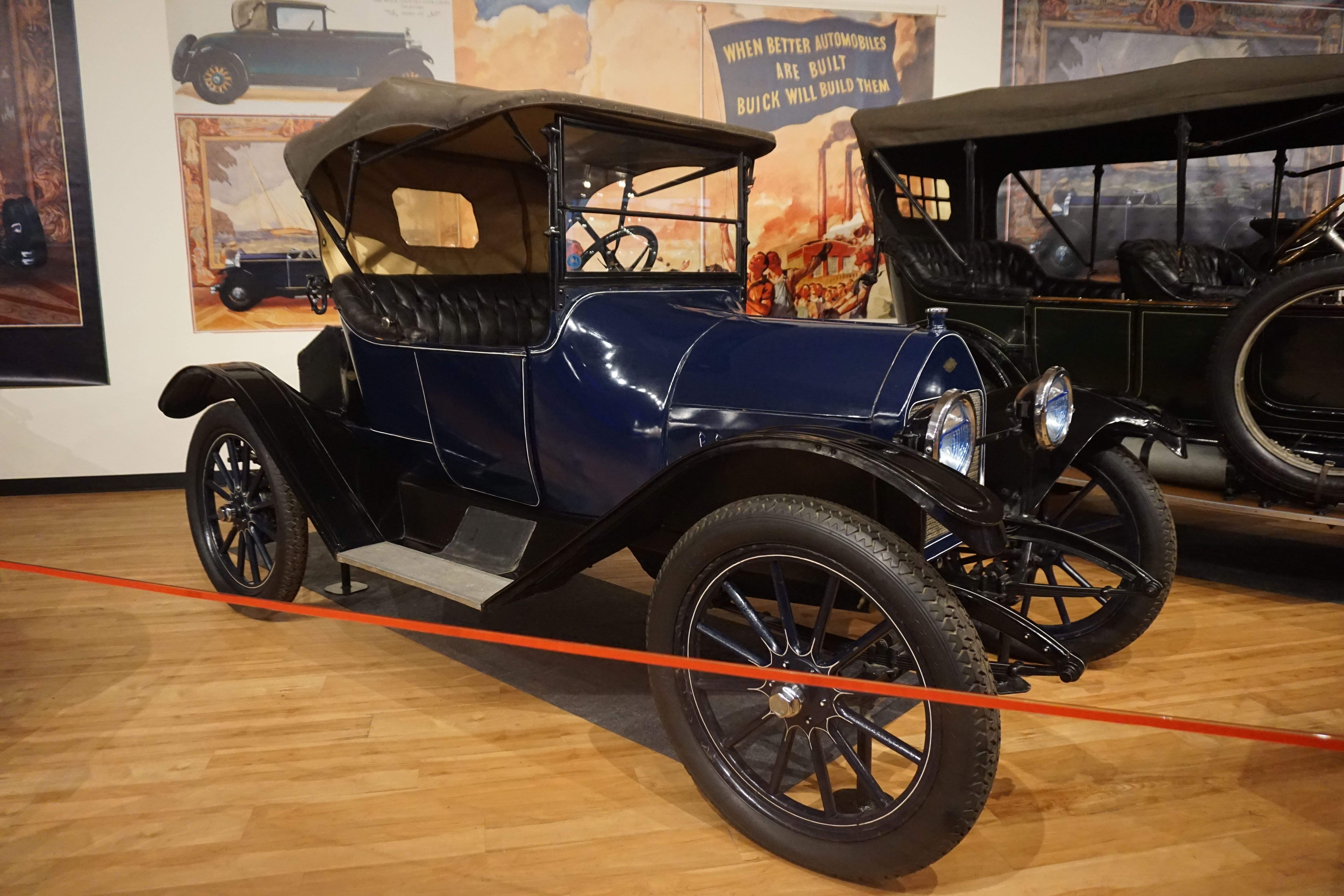 A 1914 Monroe Model 165 at the Sloan Museum at Courtland Center in Burton, Michigan (United States).